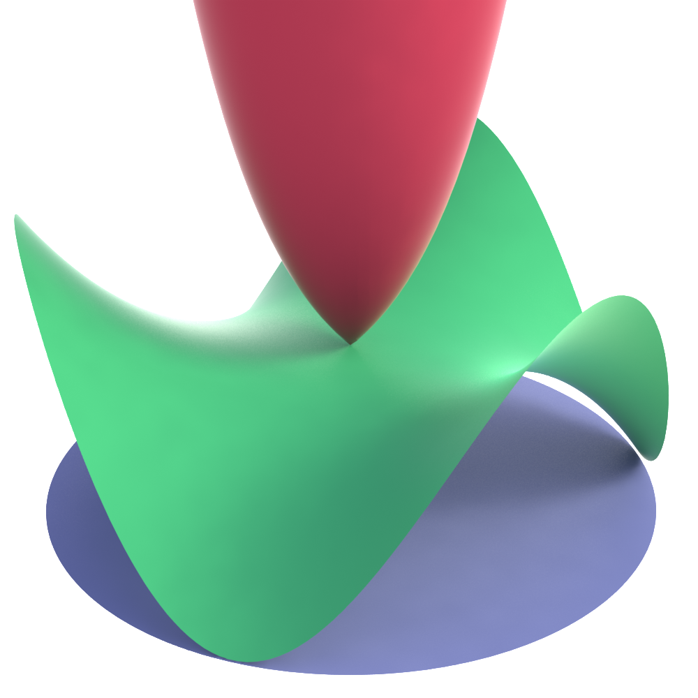 Example of the Harnack inequality: a harmonic function (green) over a disk of radius R (blue) is bounded by a function that coincides with the harmonic function at the center and approaches infinity near the boundary of the disk (red).